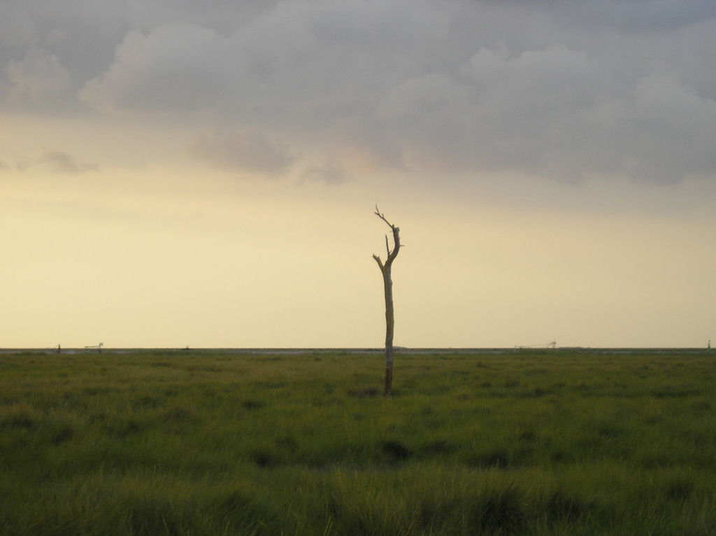 Guadalquivir Marshes (Las Marismas del Guadalquivir) in Spain